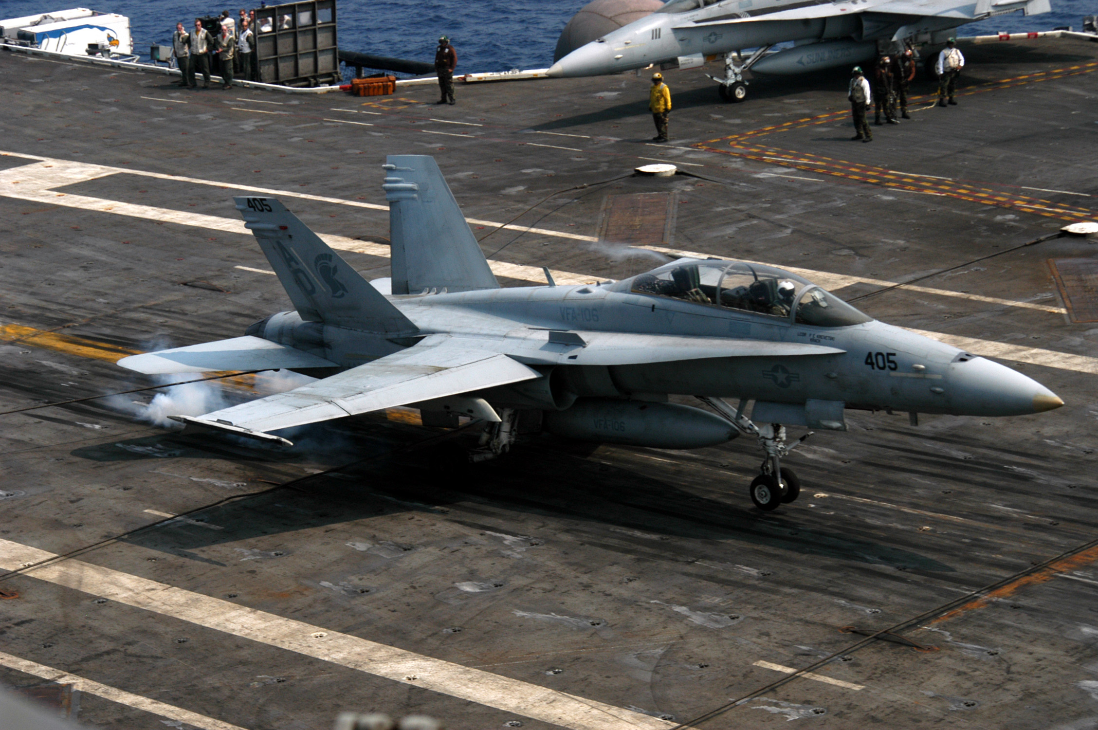 Atlantic Ocean (Sept. 21, 2005) - An F/A-18D Hornet, assigned to the “Gladiators” of Strike Fighter Squadron One Zero Six (VFA-106), makes an arrested landing on the flight deck aboard the conventionally powered aircraft carrier USS John F. Kennedy (CV-67). Kennedy was underway in the Atlantic Ocean conducting scheduled carrier qualifications. U.S. Navy photo by Photographer’s Mate 3rd Class Tommy Gilligan (RELEASED)